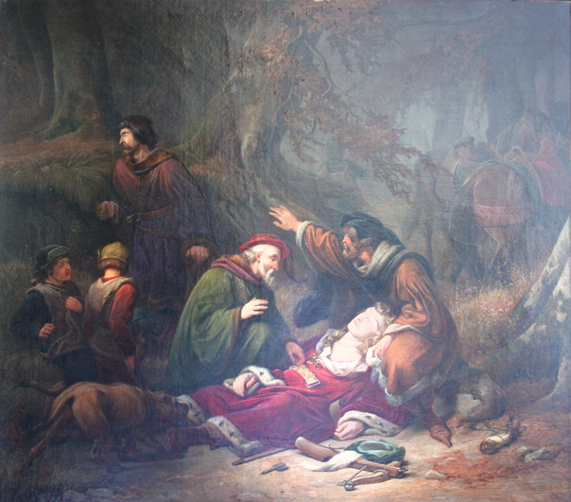 Christian Emil Andersen's painting of the Death of Valdemar the Young. He died in a shooting accident during hunting at Refsnæs in Denmark.